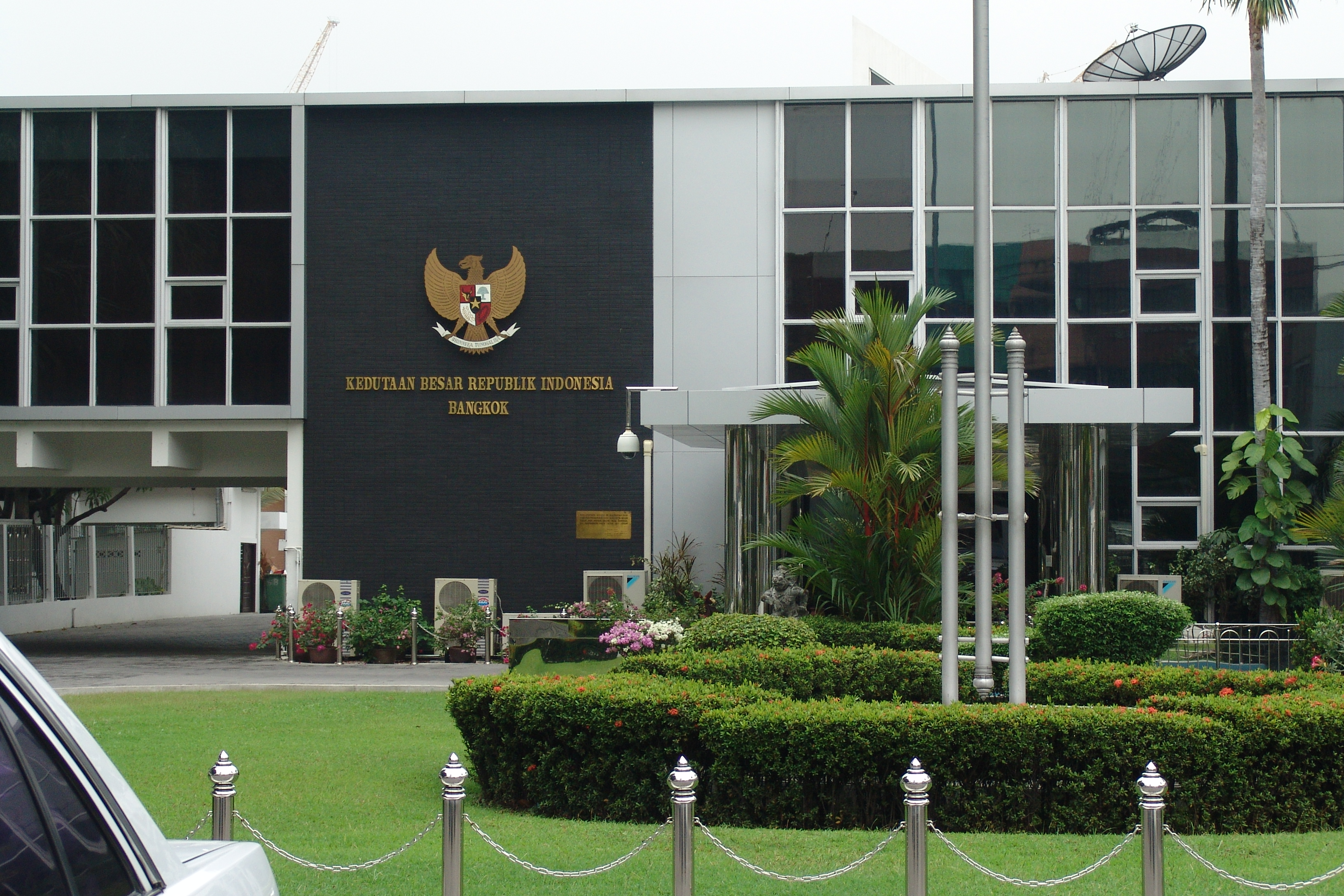 The Indonesian Embassy in Bangkok, New Petchabury Road. April 2005. Own photo.